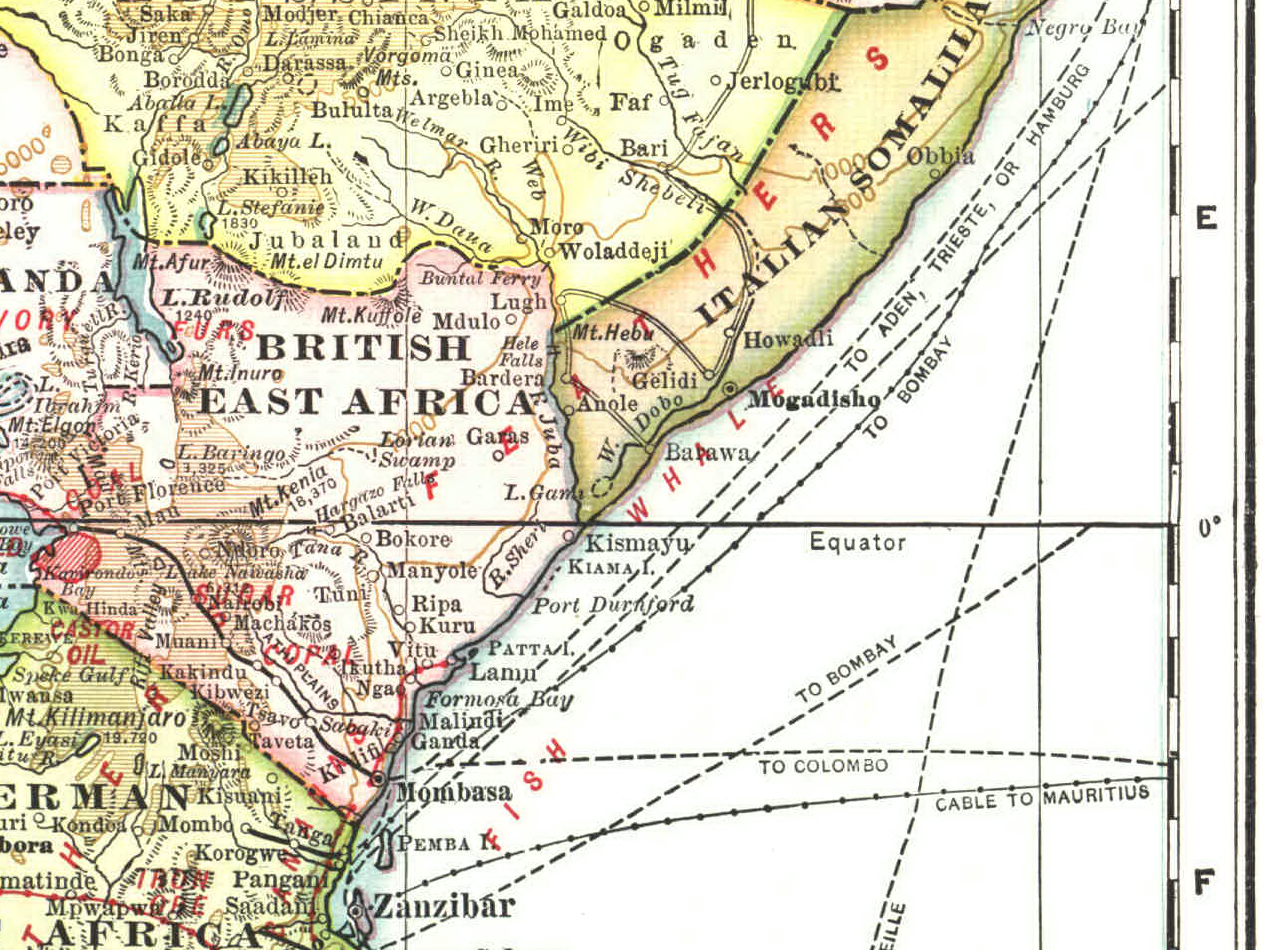 Map of Africa